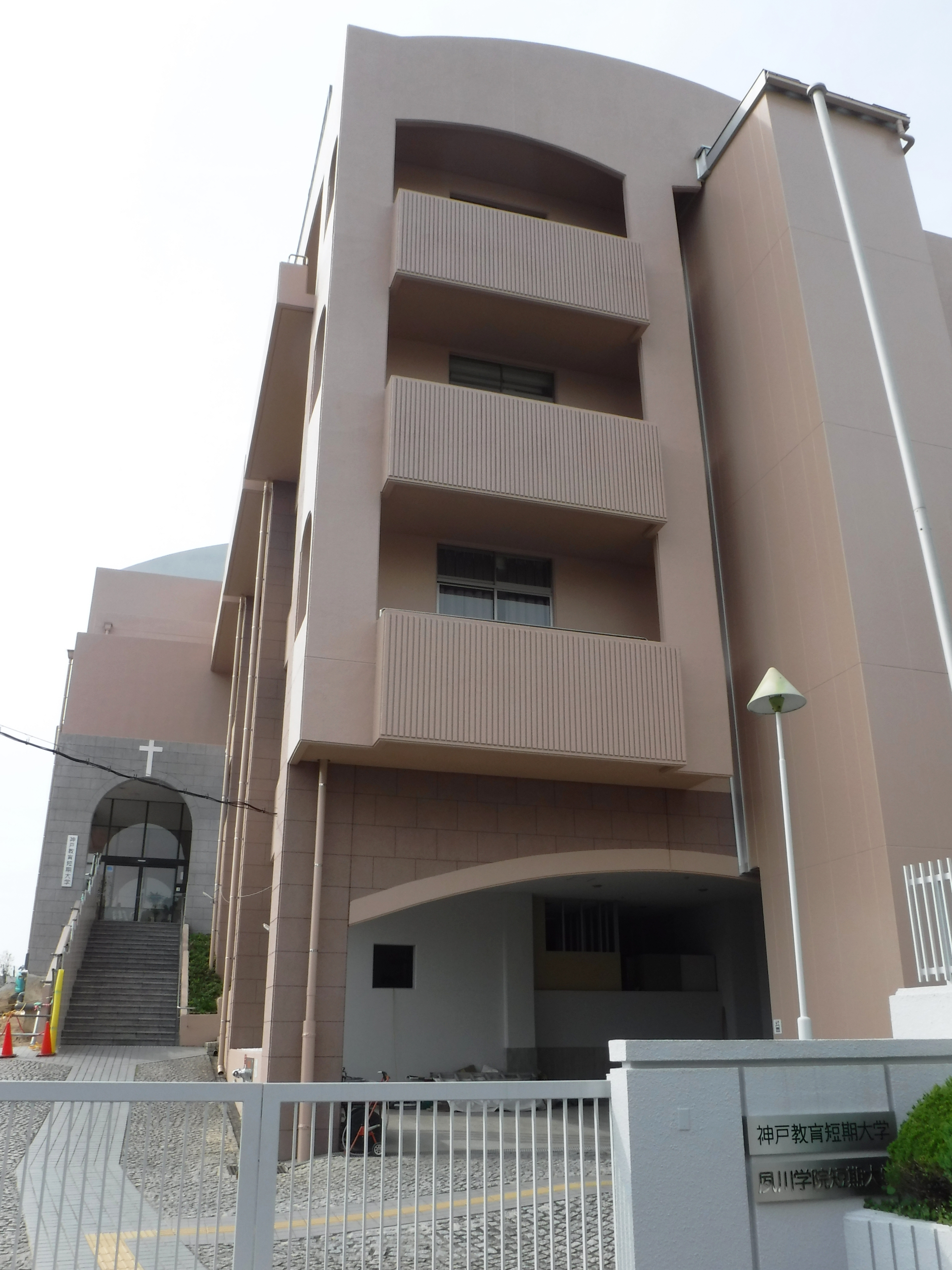 Entrance to Kobe College of Education (formerly Shukugawa Gakuin College) in Nagata-ku, Kobe, Hyogo, Japan.